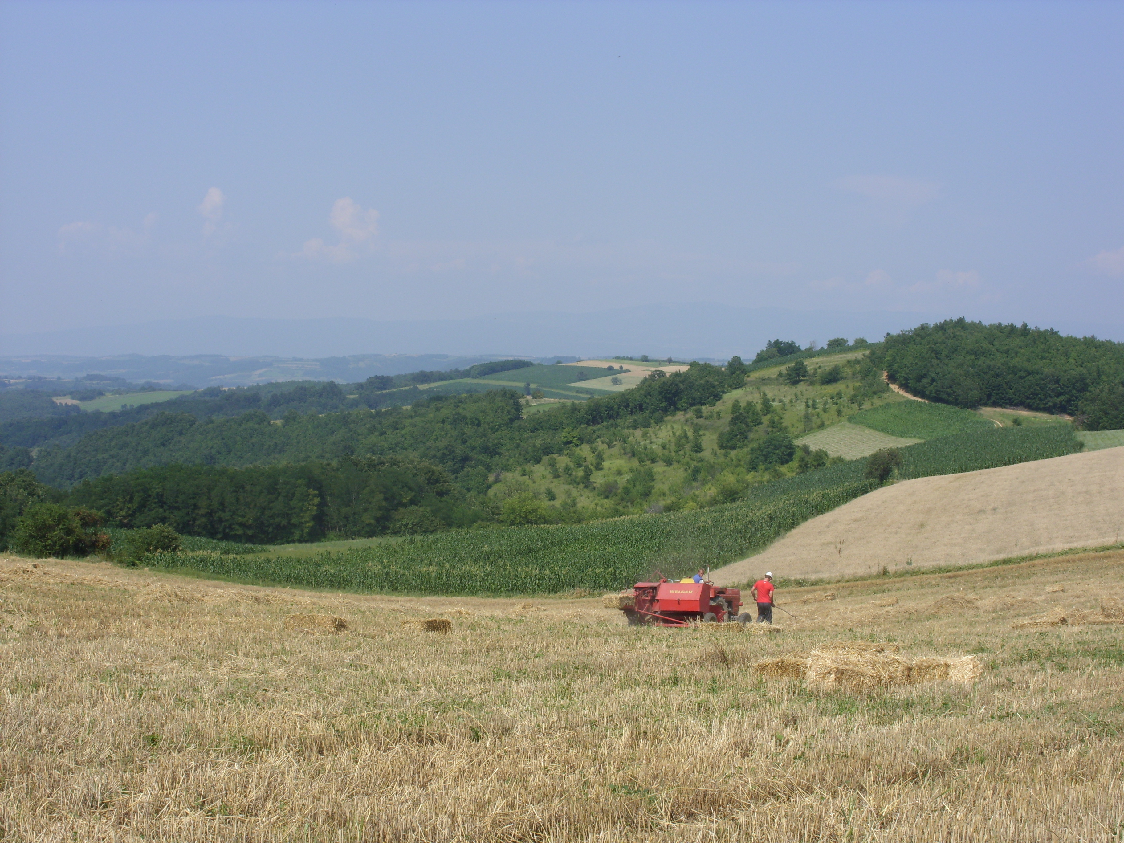 village of Vukanja, Aleksinac Municipality, Serbia